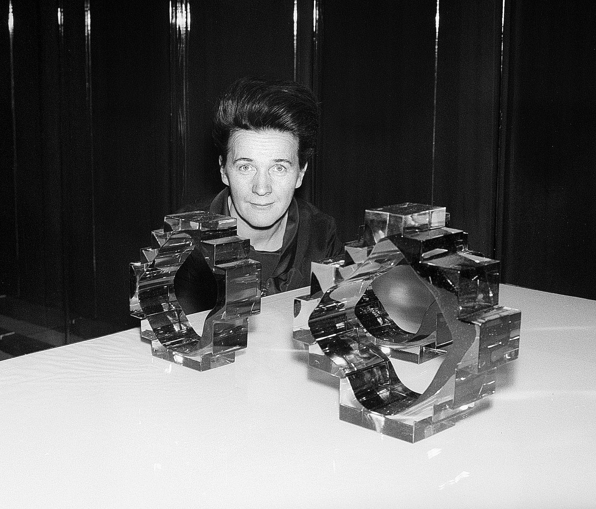 Photograph of the Finnish designer Helena Tynell (1918–2016) with her Rialto designs.